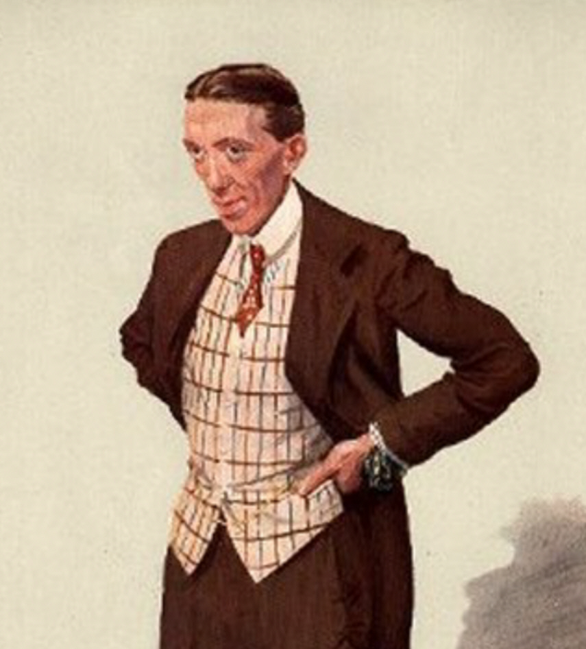 Caricature of the British actor Gerald du Maurier (* 1873; † 1934)